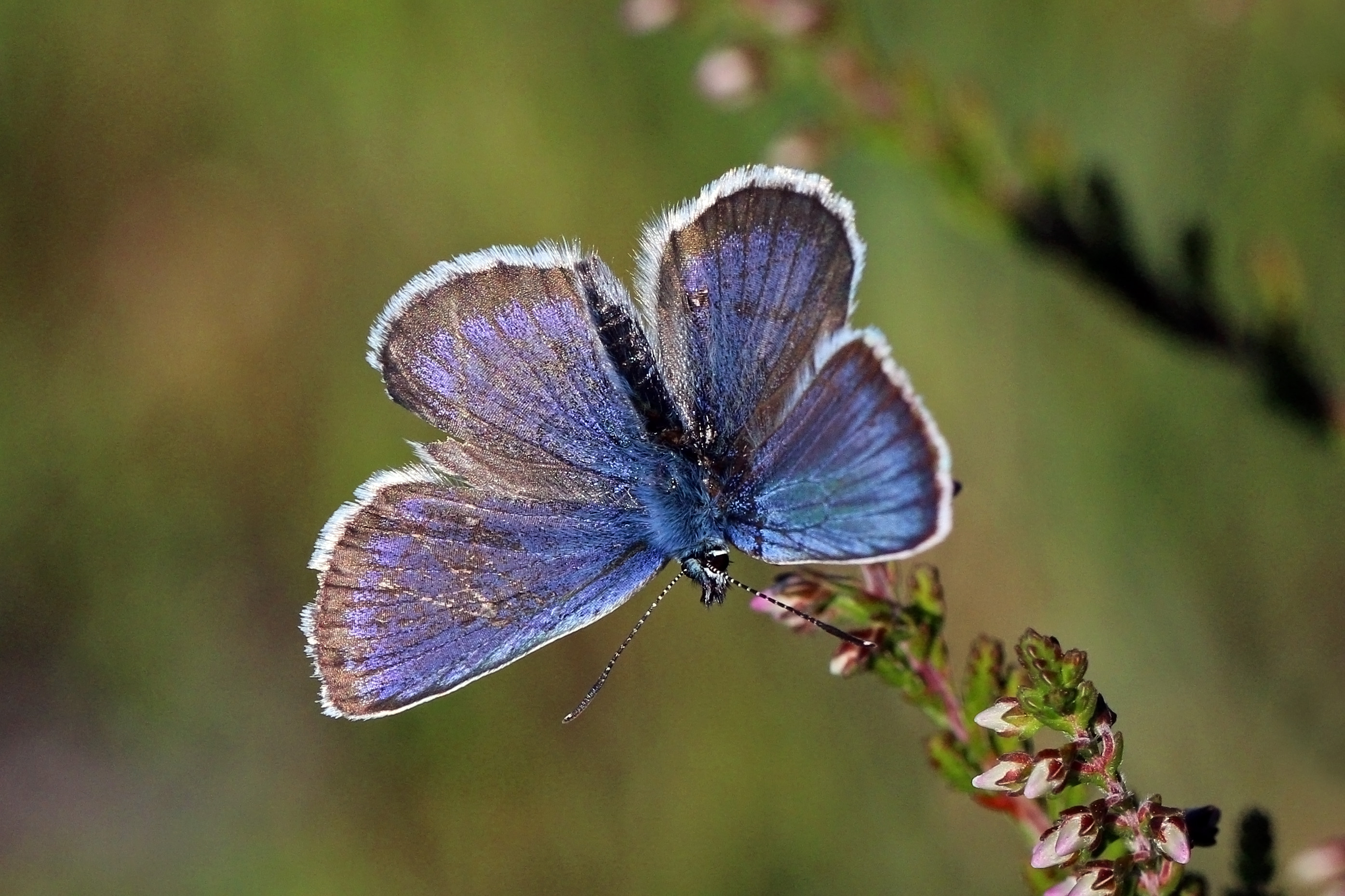 Silver-studded blue (Plebeius argus) male, Crockford Stream, Hampshire